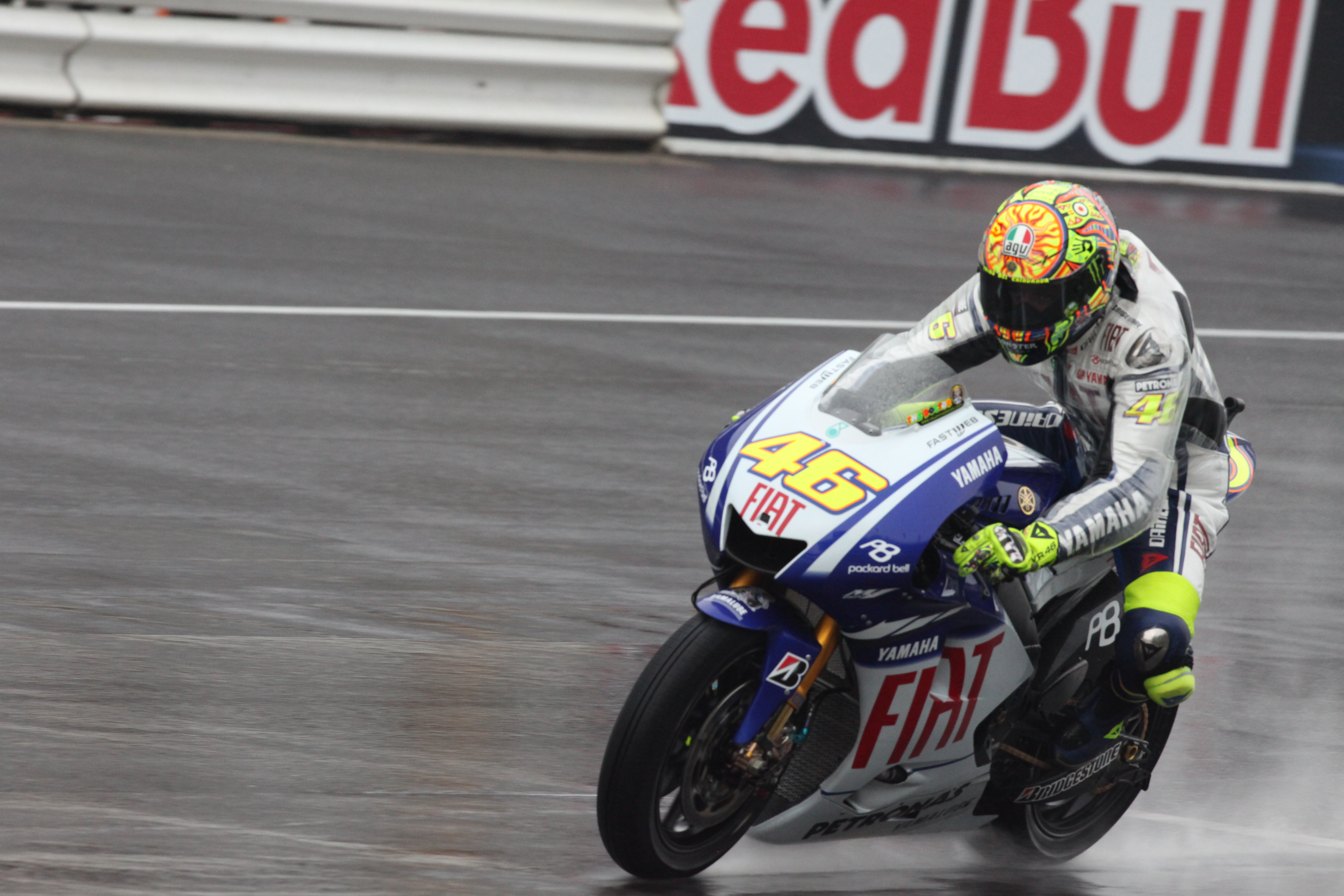 I'm at the Indianapolis Motor Speedway this weekend to study the Fiat/Yamaha team, which is currently #1 and #2 in the standings and they have a nice. Flickr page.